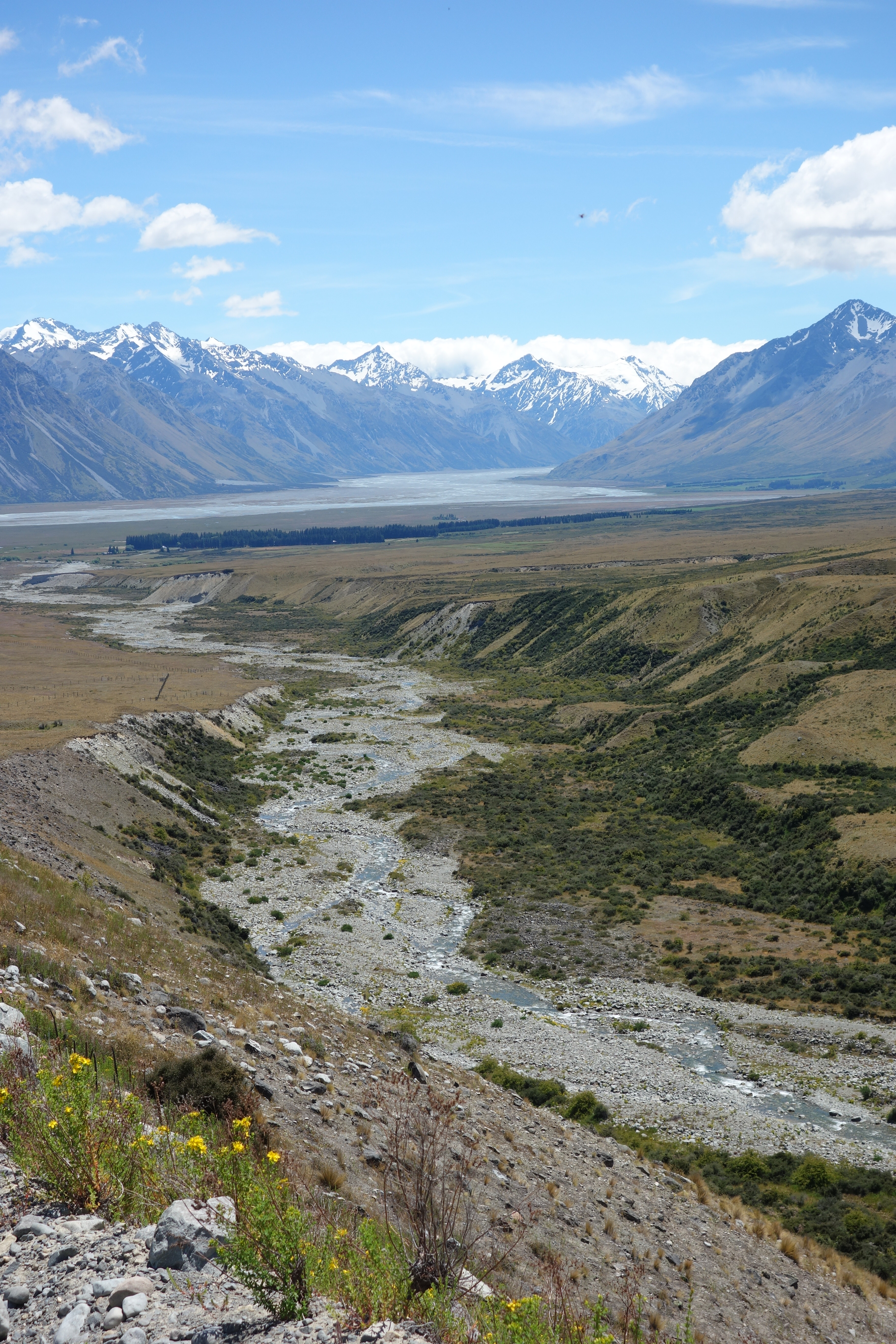 Macaulay River flowing into Lake Tekapo